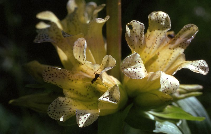 Gentiana burseri ssp.villarsii - Flower